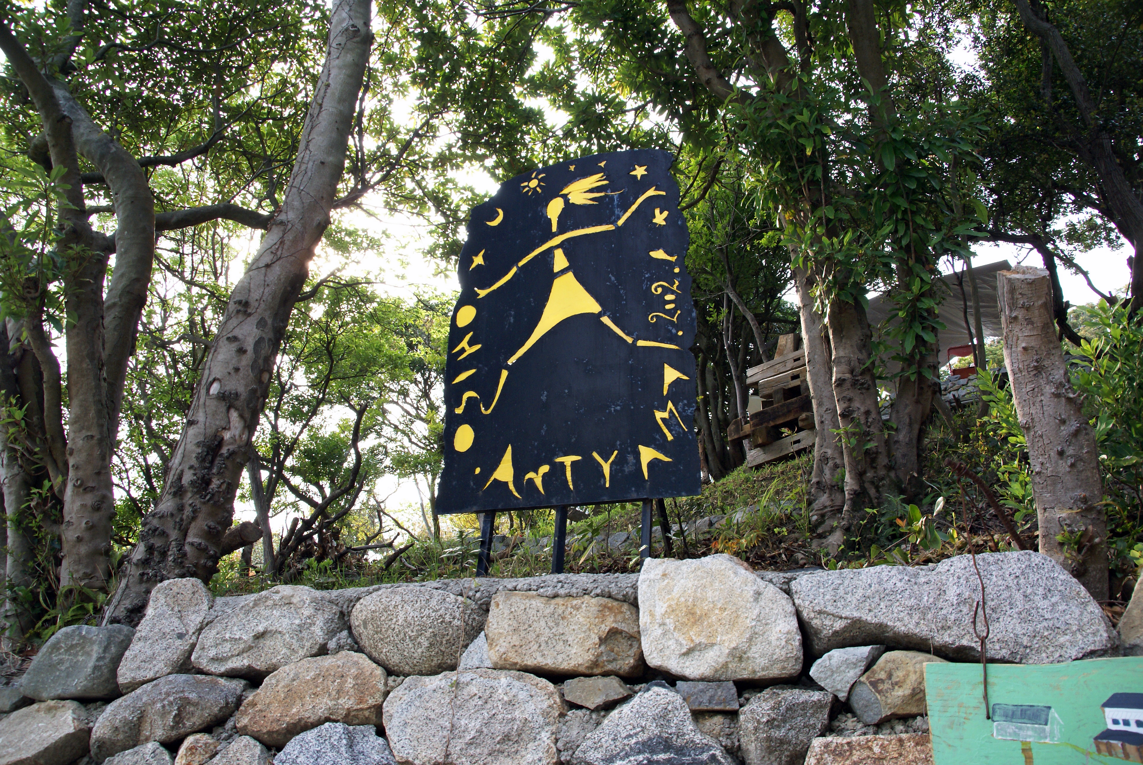 Awaji Oiso Artyama in Awaji, Hyogo prefecture, Japan